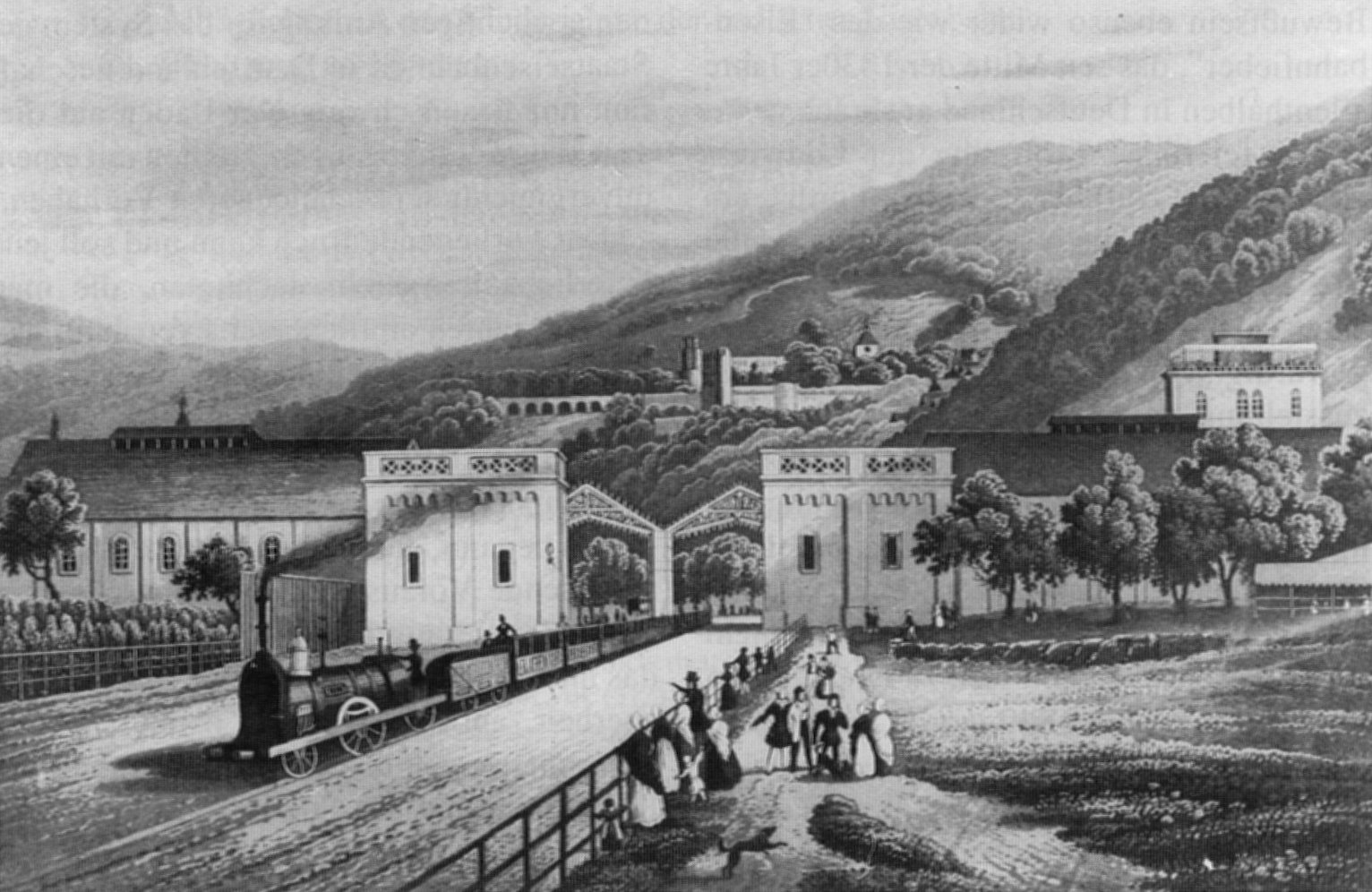 Train leaves the station of Heidelberg (Germany) in the year 1840